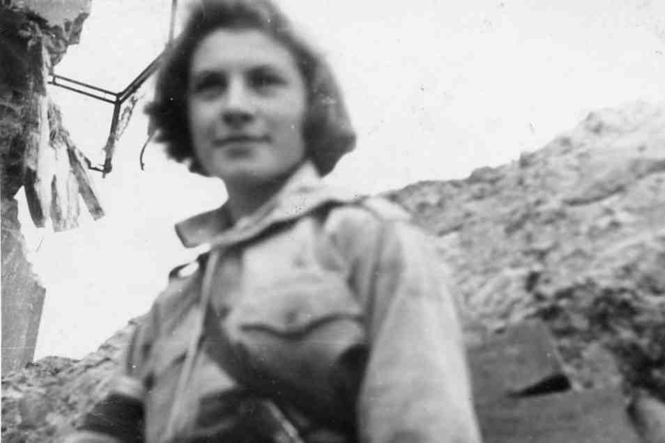 Liaison officer of Polish Home Army Ewa Ponińska (by marriage Konopacka) during Warsaw Uprising in August 1944